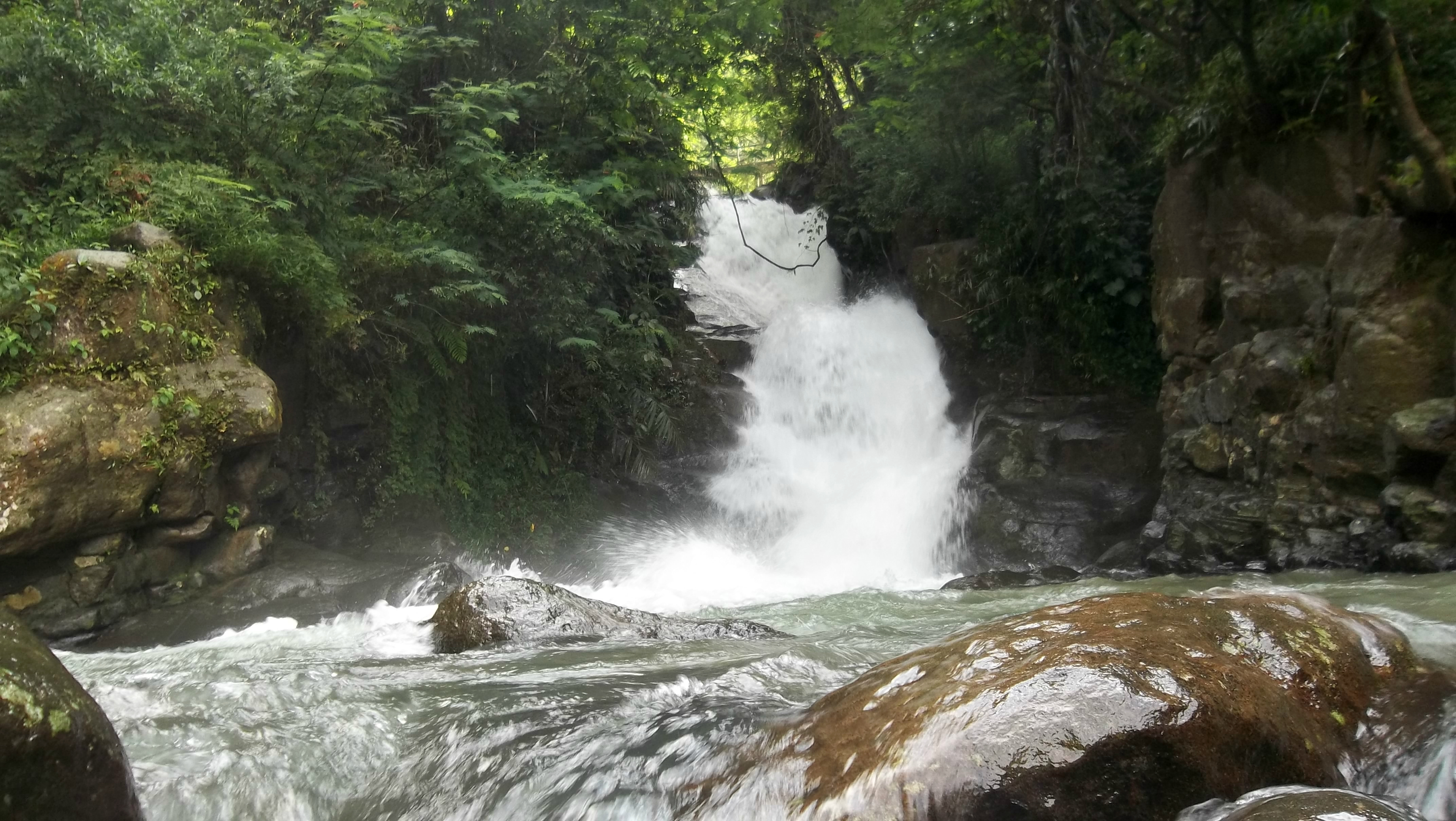 Curug Panjang Waterfall at Megamendung, Bogor.